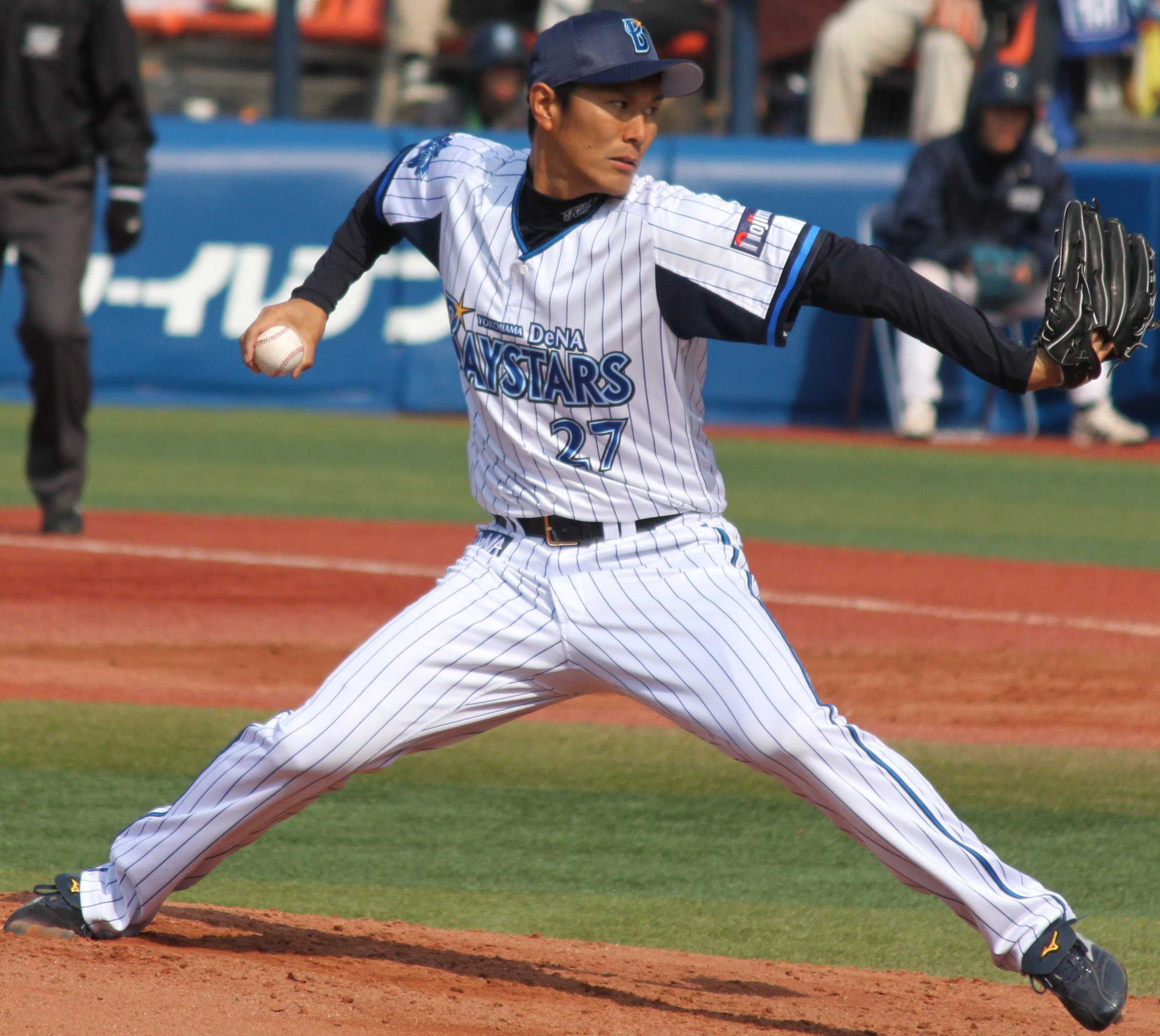 Yasutomo Kubo, pitcher of the Yokohama DeNA BayStars, at Yokohama Stadium.